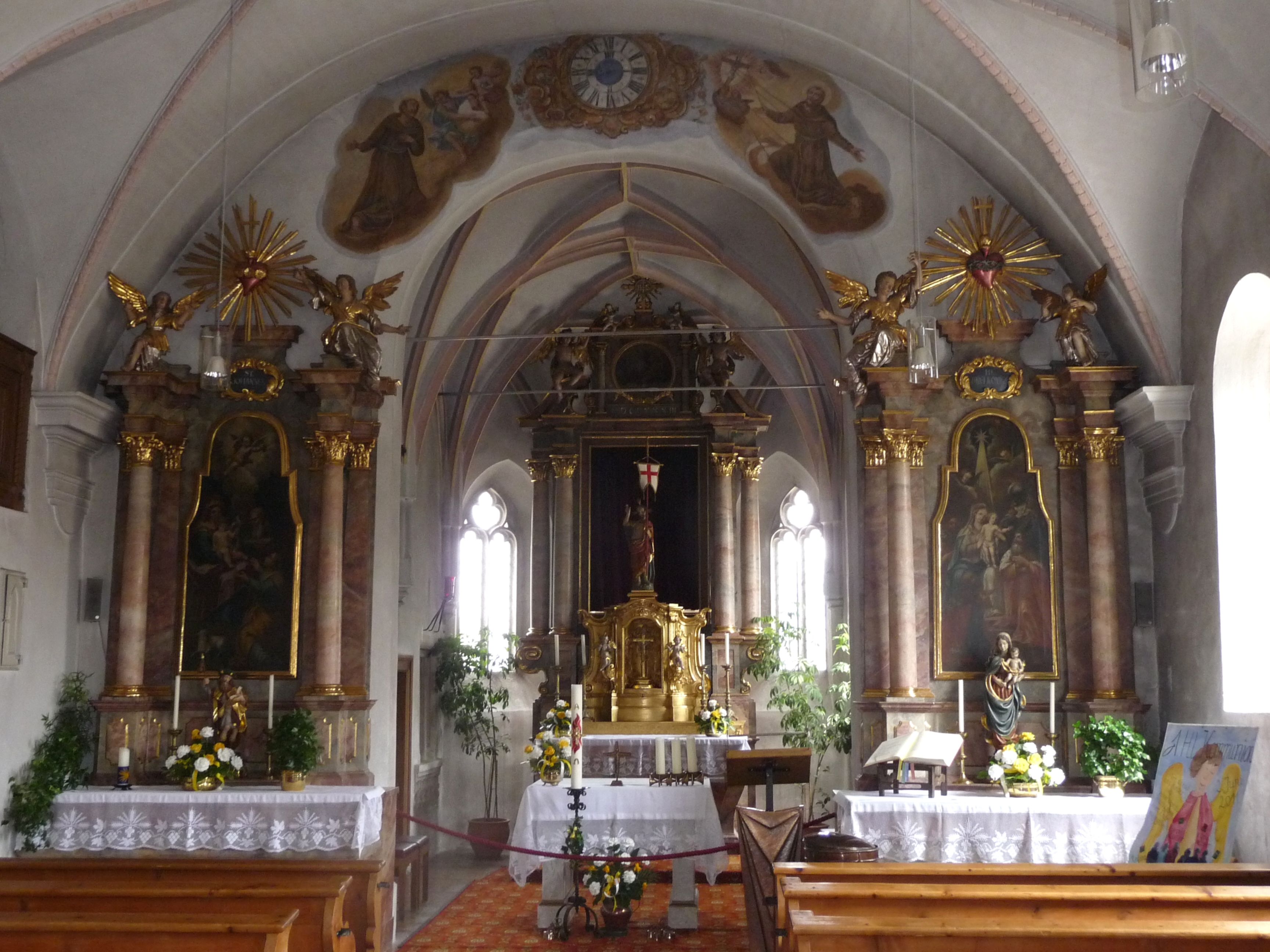 Interior of Parish church St James ("St. Jakob"), Wallgau, Germany